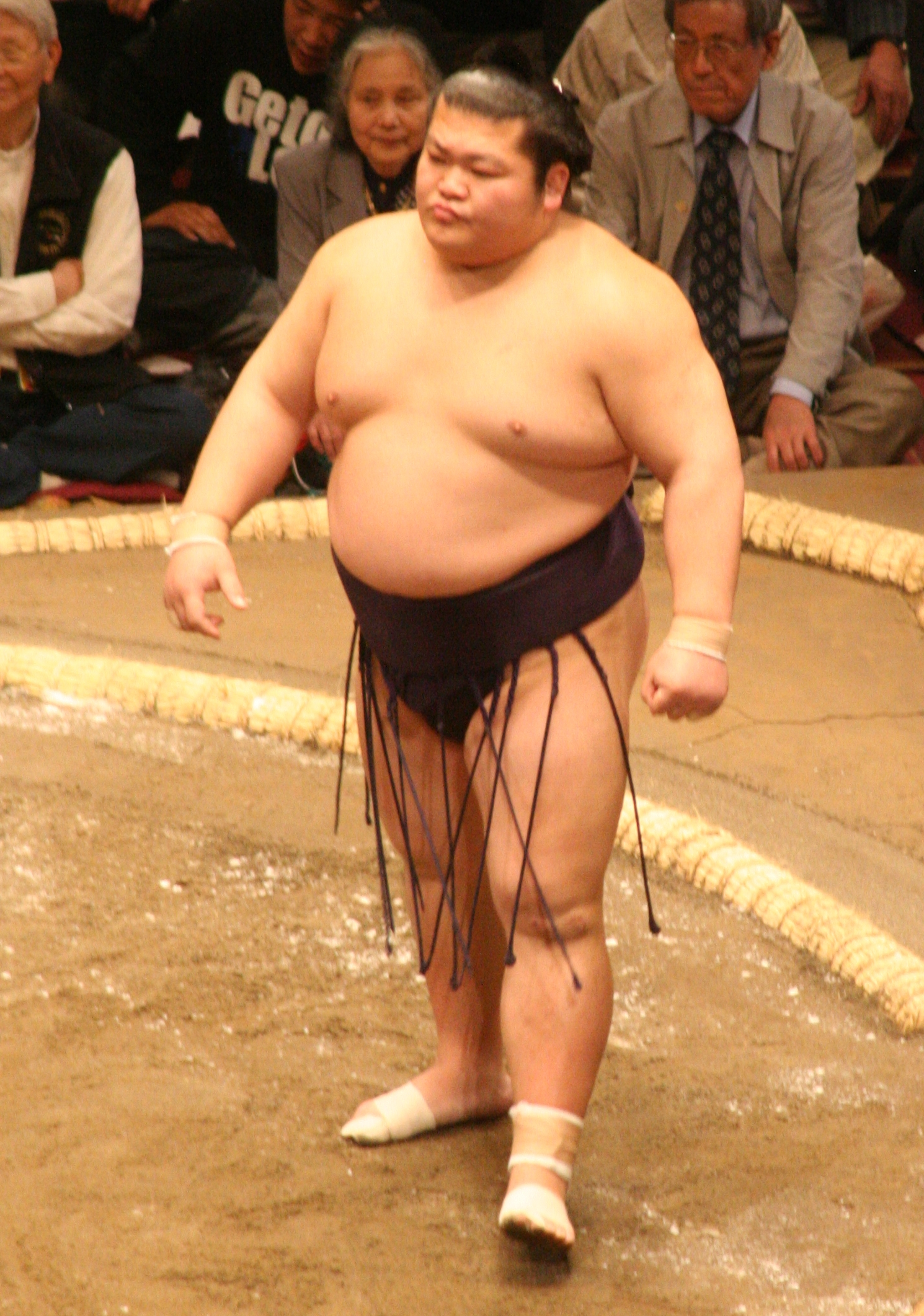 First day of 2009 May Sumo Tournament in Tokyo, Japan - Takekaze